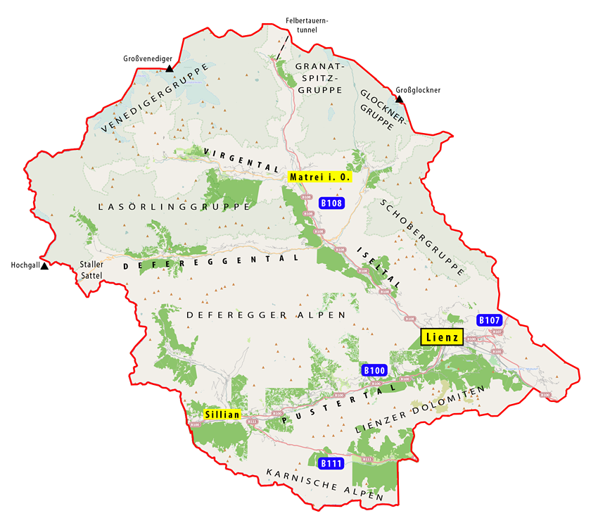 Self-created East Tyrol overview map. Base map: Geographic datas: Osttirol Bilderreise (BOOKZ - GRAFIK ZLOEBL BUCHDESIGN & -VERLAG © GRAFIK ZLOEBL GmbH, 2011, ISBN 978-3-9503142-1-2).